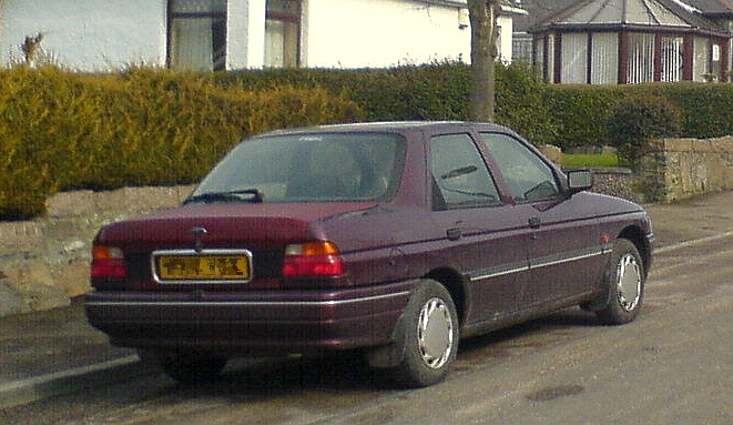 Ford Escort (Europe) - Mark Vb (5B) - saloon - rear view.